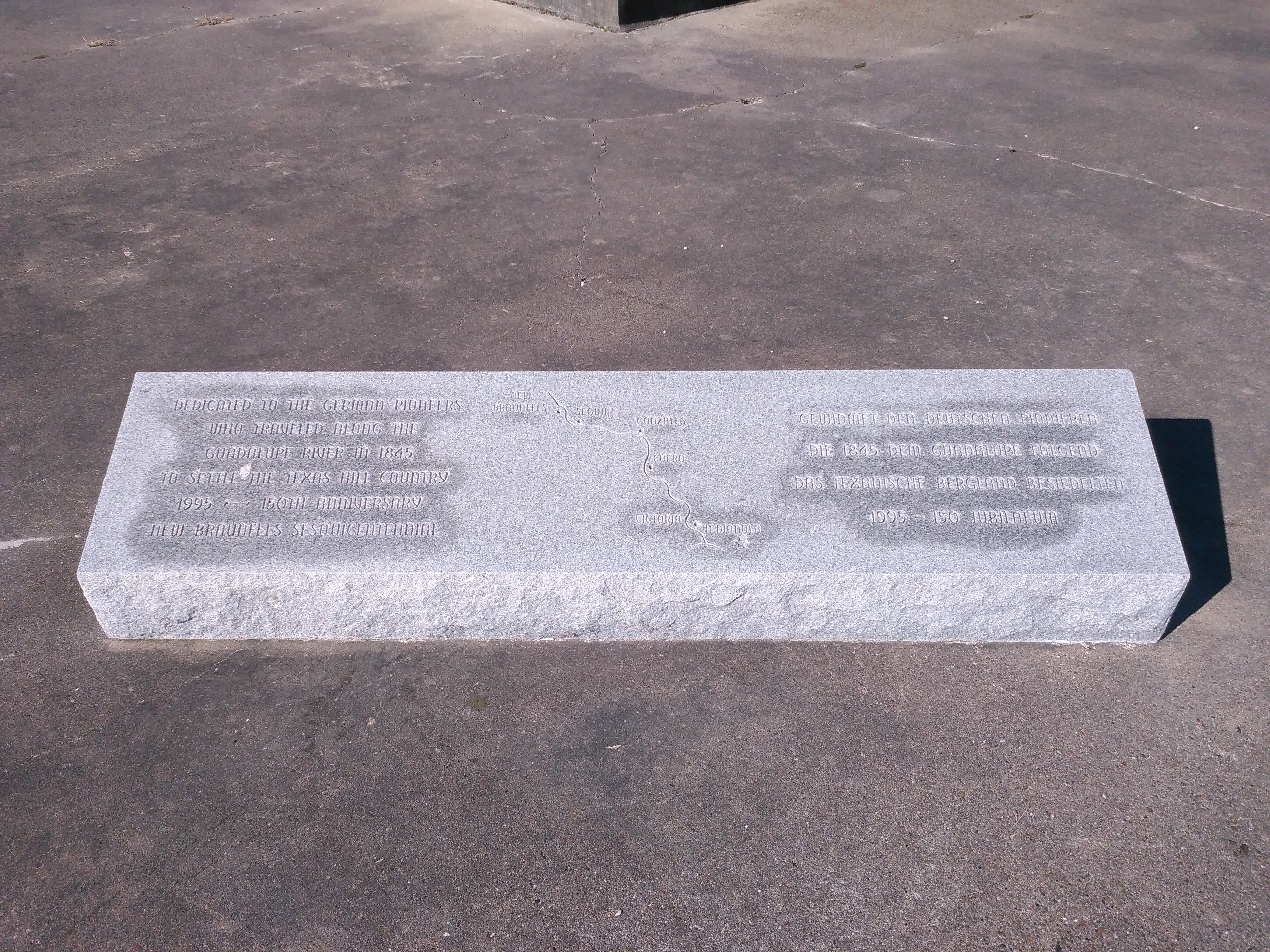 German immigration marker, Indianola, Texas - "Dedicated to the German pioneers who traveled along the Guadalupe River in 1845 to settle the Texas Hill Country 1995 - 150th Anniversary New Braunfels Sesquicentennial"